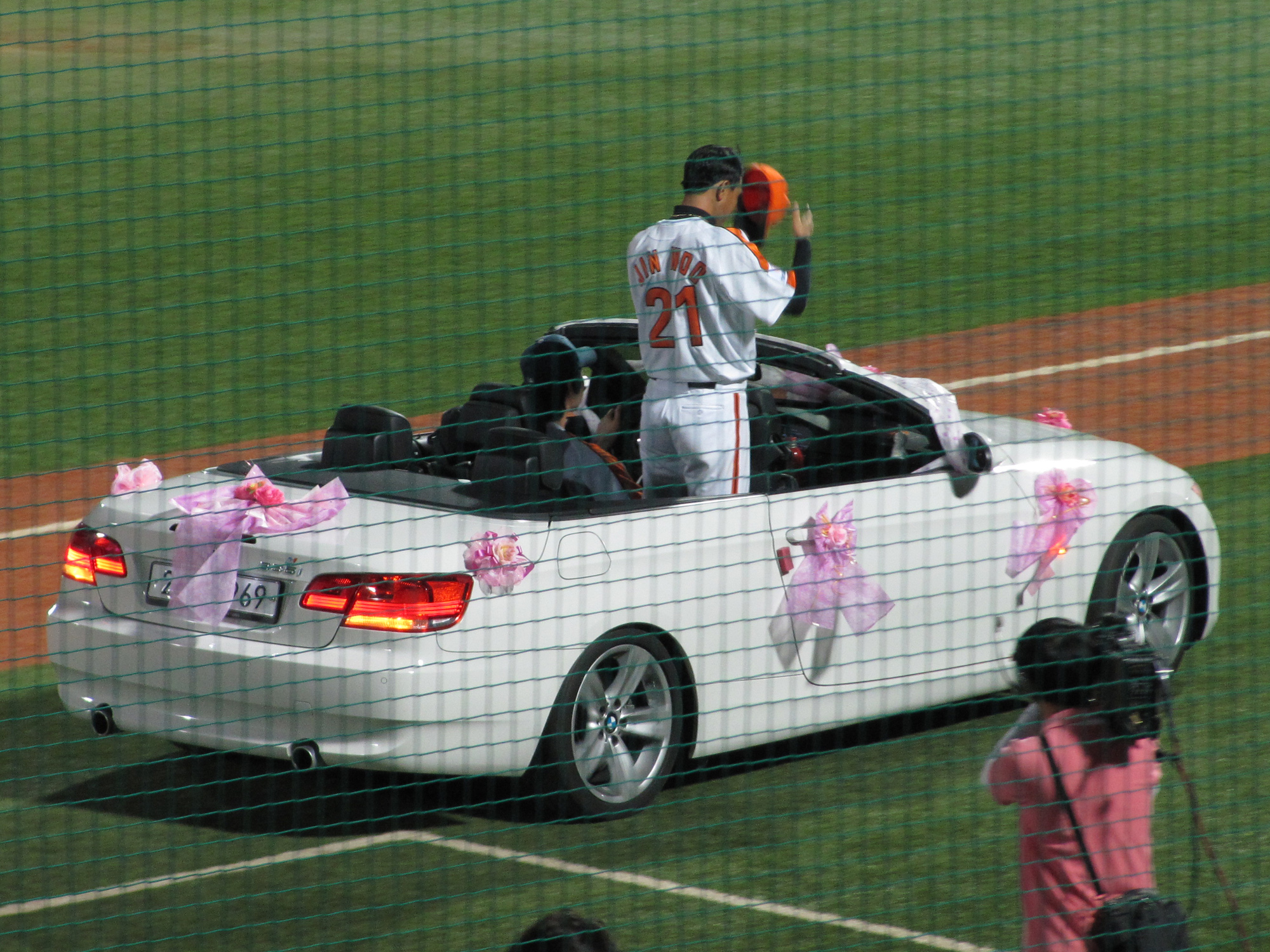 Retired Song Jin-Woo was greeting to his fans at Daejeon Hanbat Ballpark.